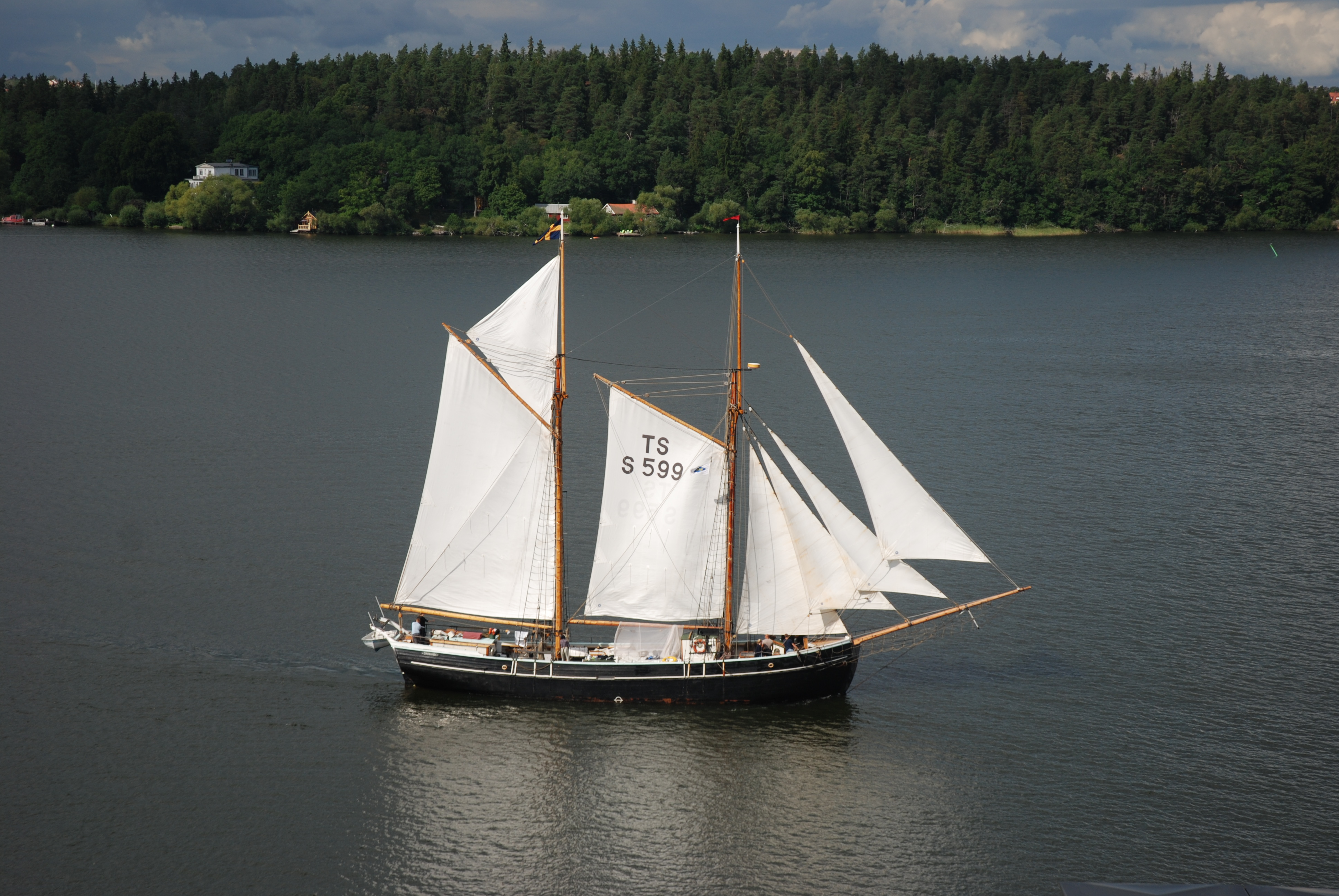 Swedish schooner and school ship T/S Constantia on lake Mälaren This is an image of the protected Swedish ship Constantia, with call sign SJOE .